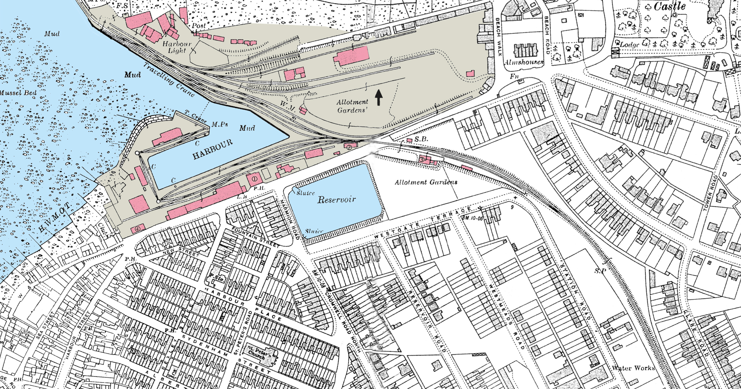 Whitstable Habour with Canterbury&Whitstable Railway, map 1938. (1) Railway station 1830, (2) R.S. 1846, (3) R.S. 1895, (4) Stable, (S.B.) Signal Box since 1908, (C) Crane, (W.M.) Weight bridge